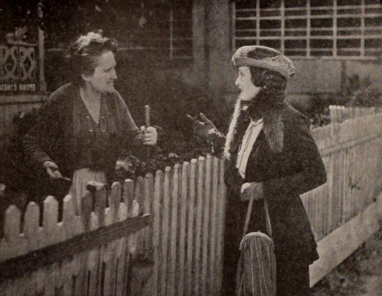 Still from the American film The Other Half (1919) with an unidentified actor and Florence Vidor, on page 65 of the September 13, 1919 Exhibitors Herald.